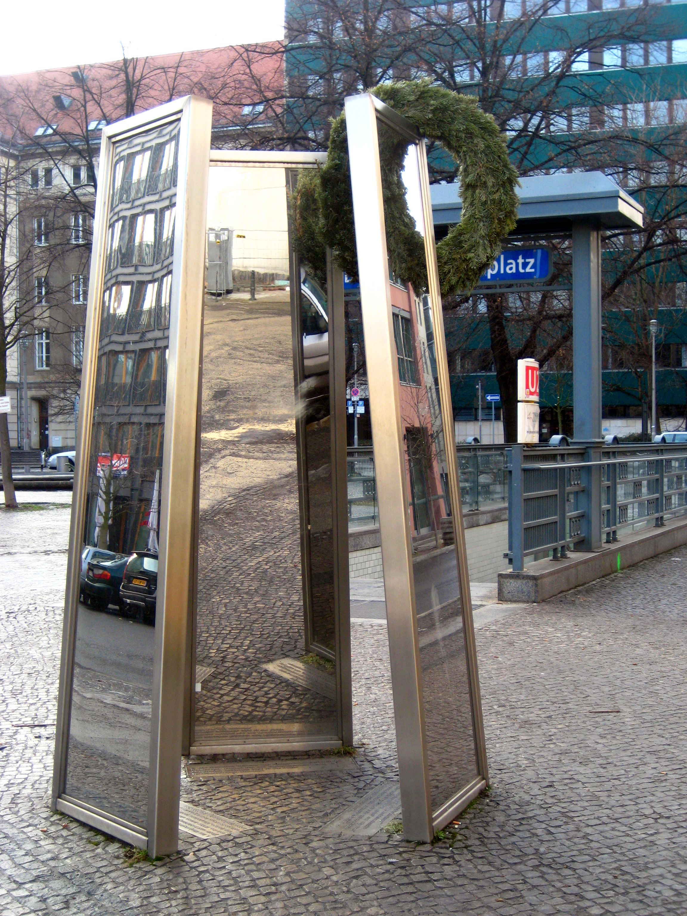 "Denkzeichen Modezentrum Hausvogteiplatz"; memorial for Jewish shop/company owners and workers in Berlin's fashion industry persecuted by the National Socialists. Designed by Rainer Görß (2000).